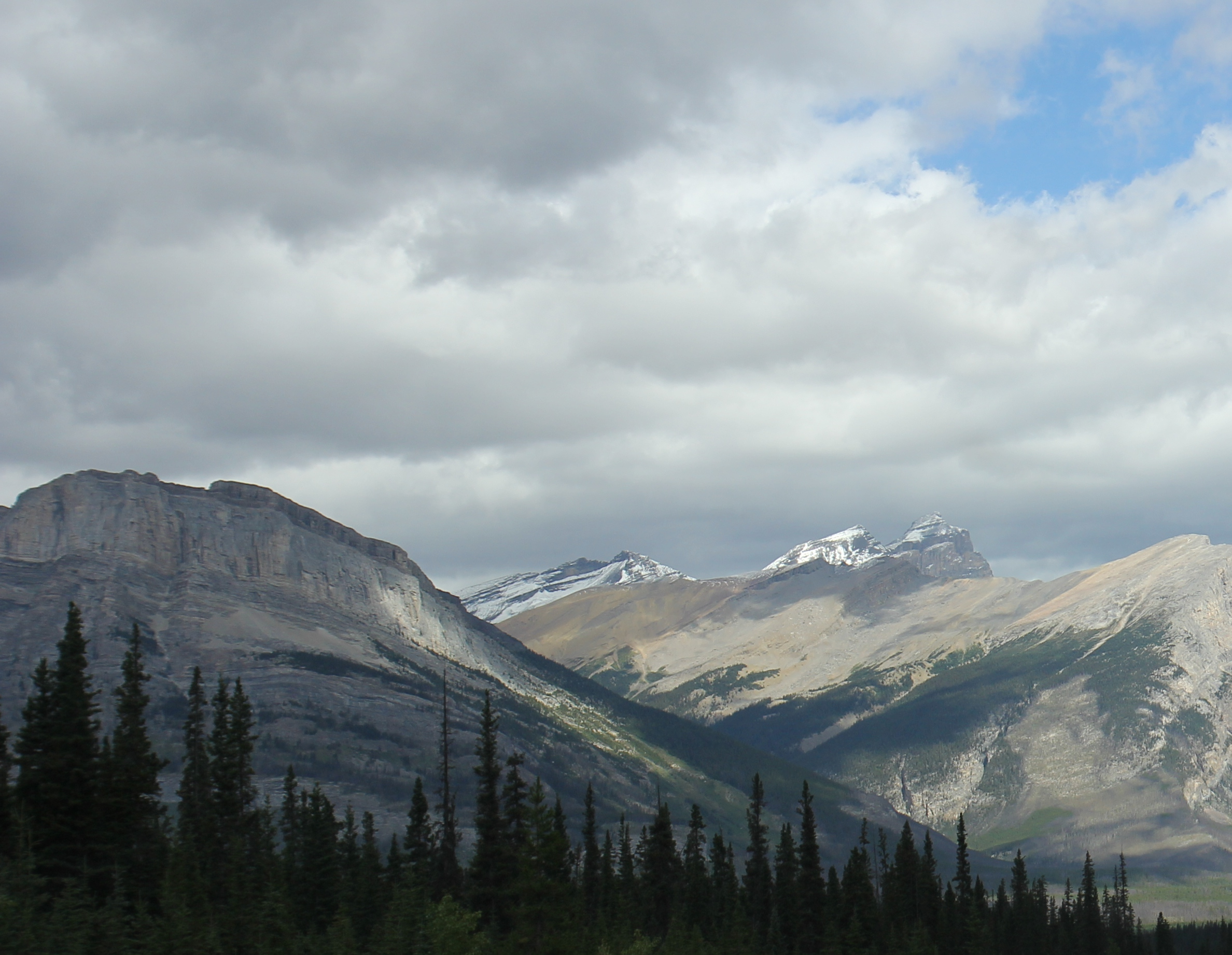 Howse Pass from the Icefields Parkway.